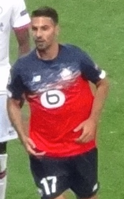 Zeki Çelik (LOSC)